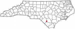 Category:North Carolina Dot Maps